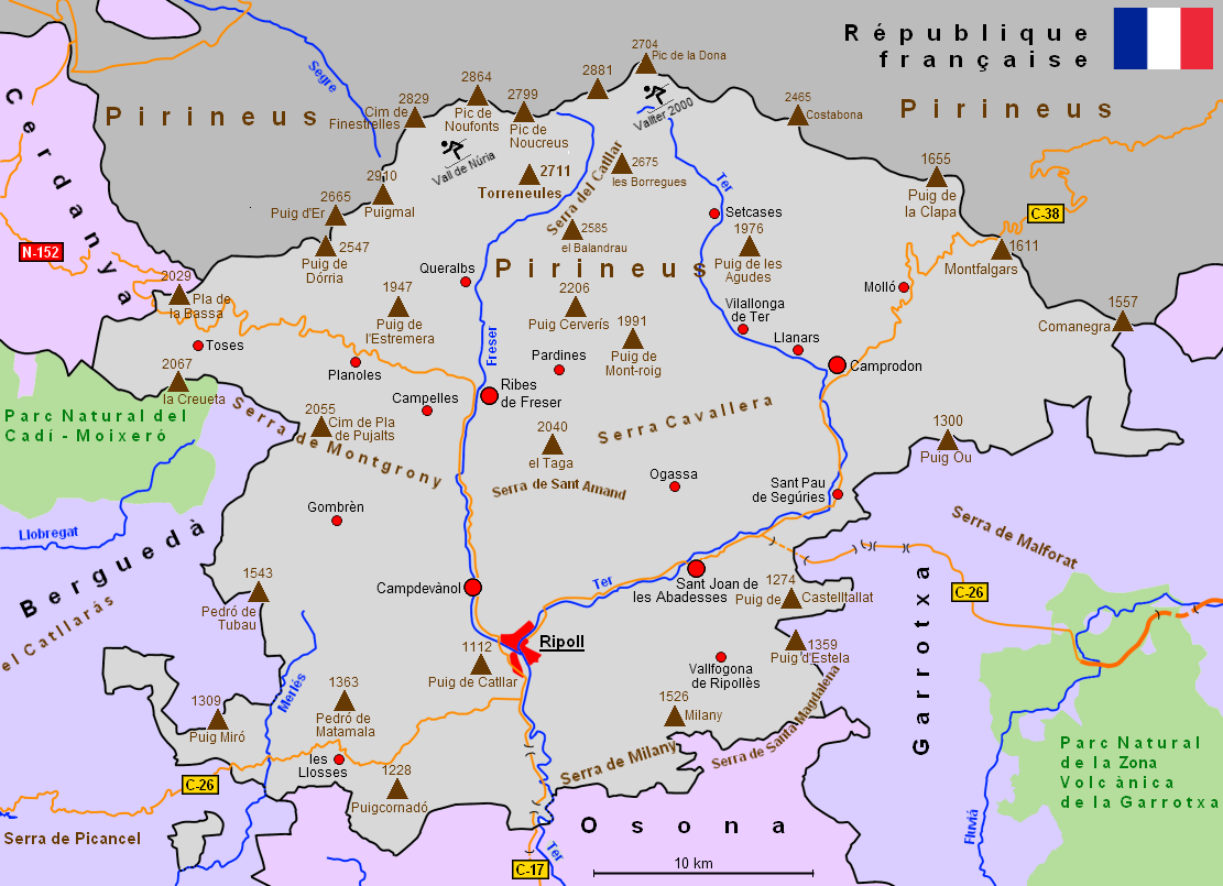 Map of the comarca Osona, Catalonia, Spain